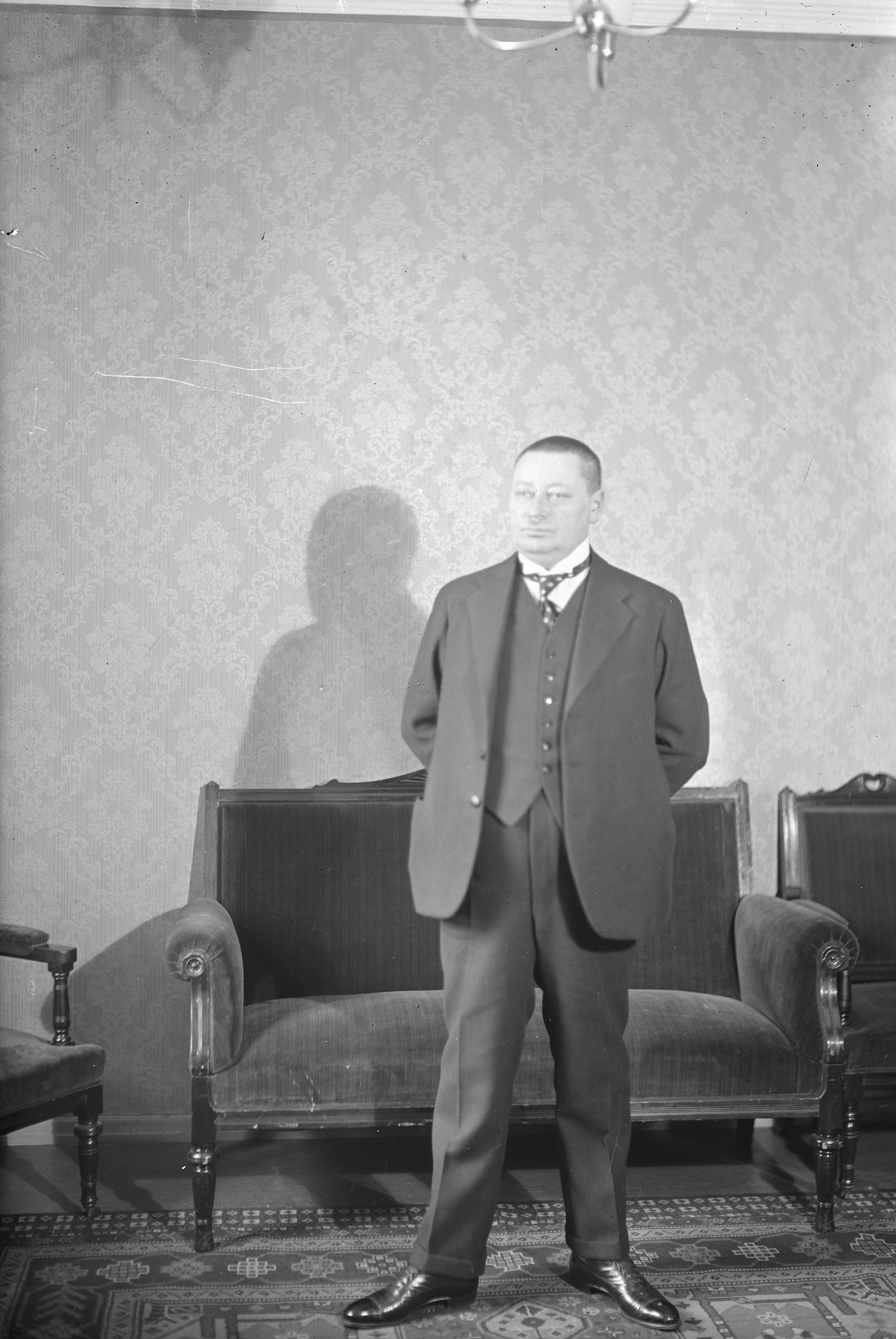 Photograph of the Finnish writer Ilmari Kivinen alias Tiitus (1883–1940).